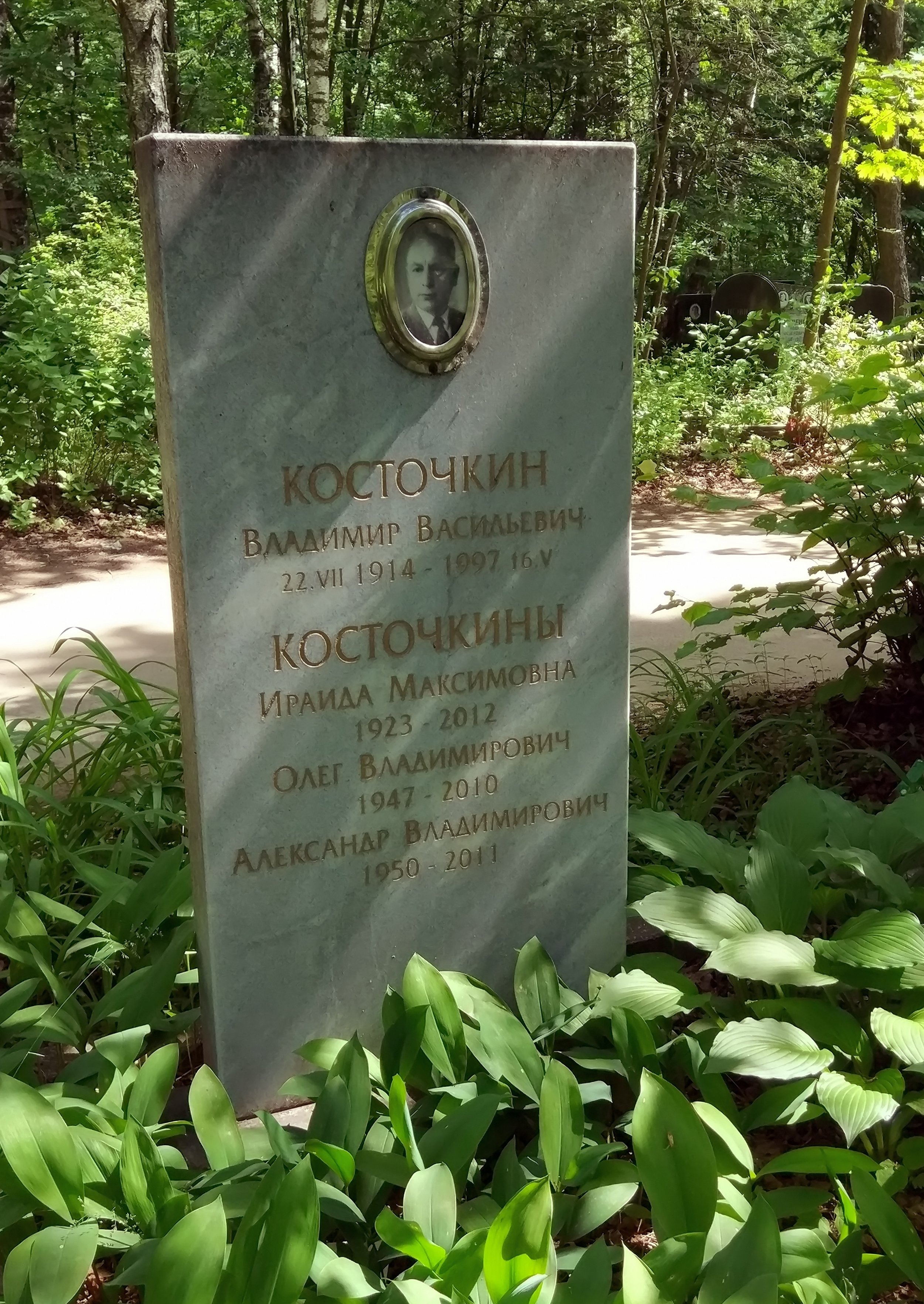 Kostochkin family grave at the Ostrovtsy Cemetery (Zhukovsky)